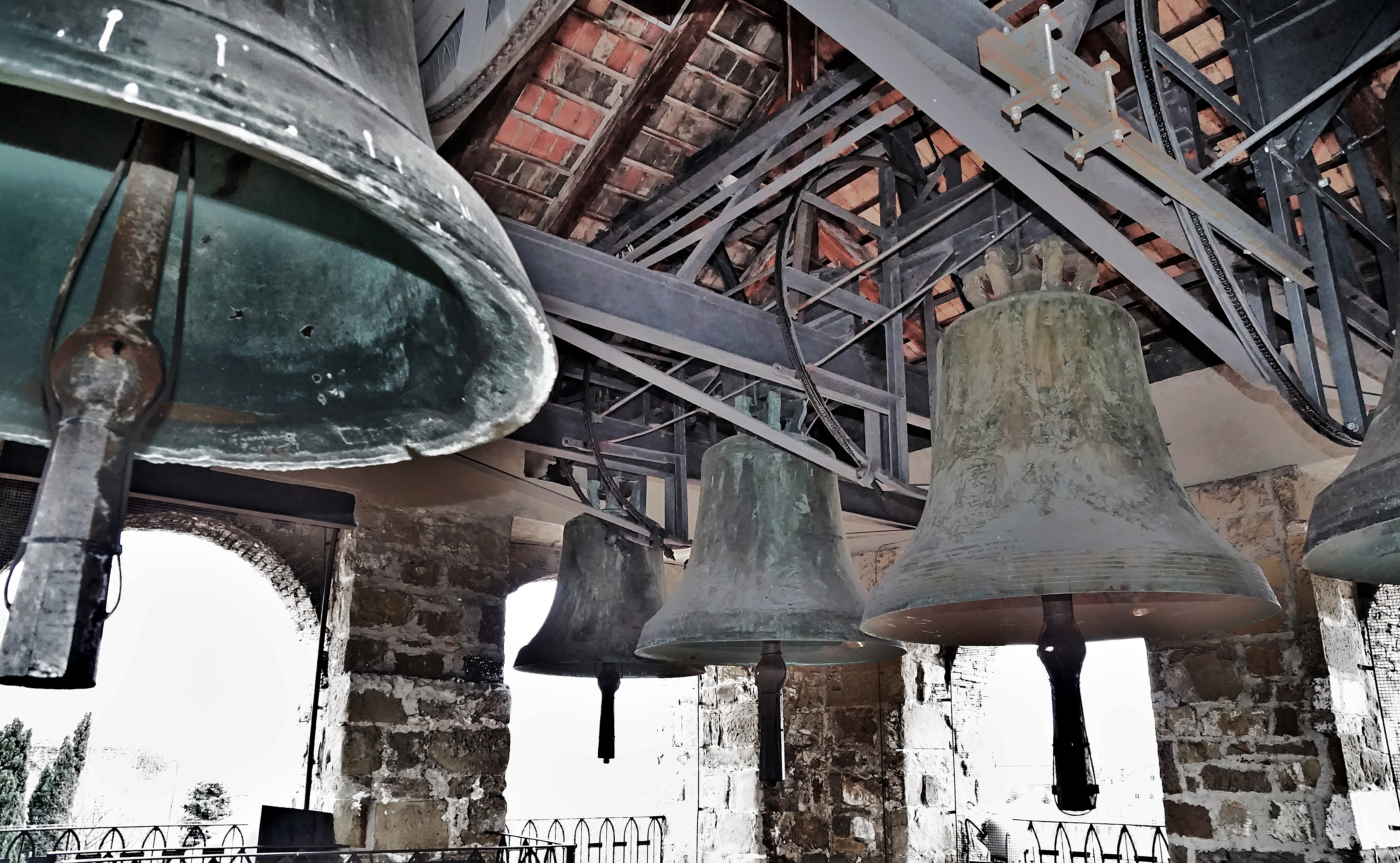 Trieste, the bells of the cathedral of San Giusto